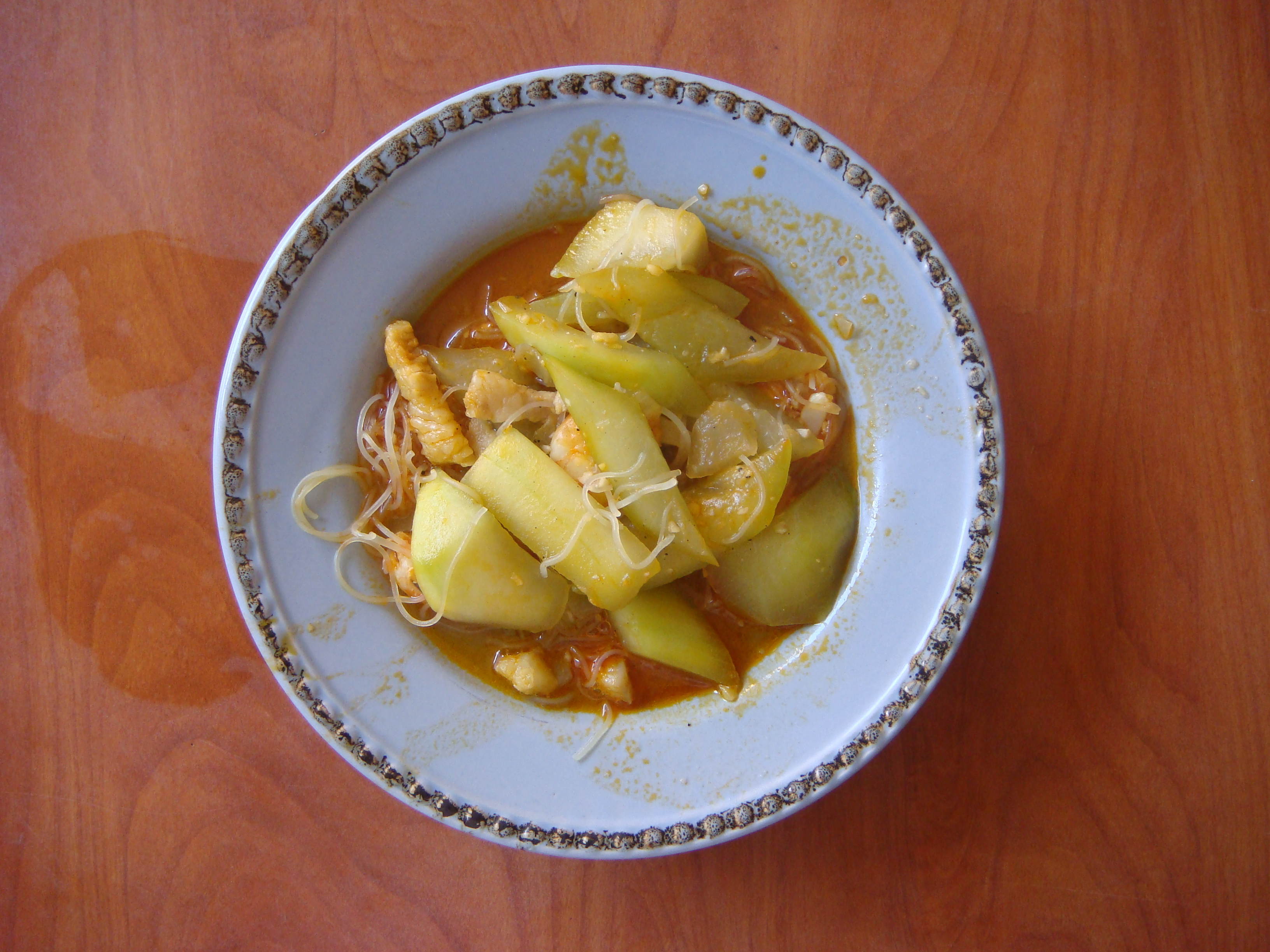 Upo (bottle gourd or Calabash) with sotanghon.